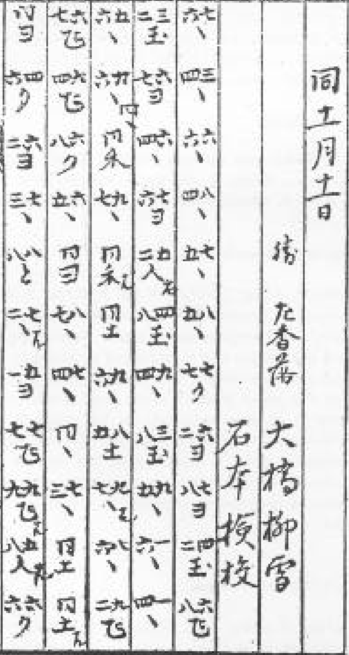 copy of an old shogi game record between 石本検校 and 大橋柳雪. The game was played on January 16, 1839. This was their 21st and last game. It was Right Lance handicap game. 大橋 is uwate, 石本 is shitate.